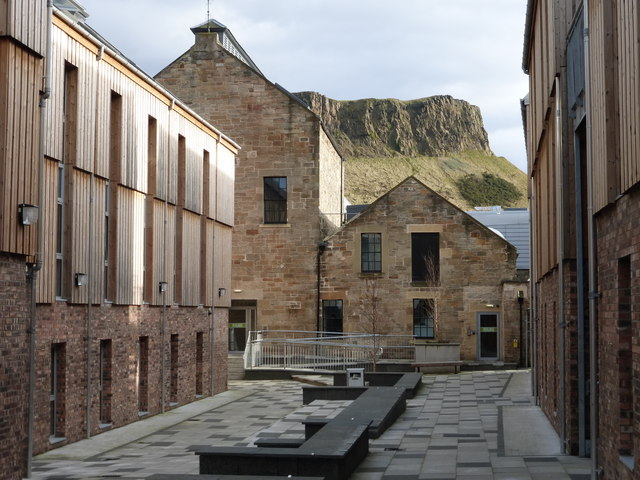 Thomsons Land, Canongate. Modern private student accommodation behind Sugarhouse Close, with old brewery buildings and Salisbury Crags behind.